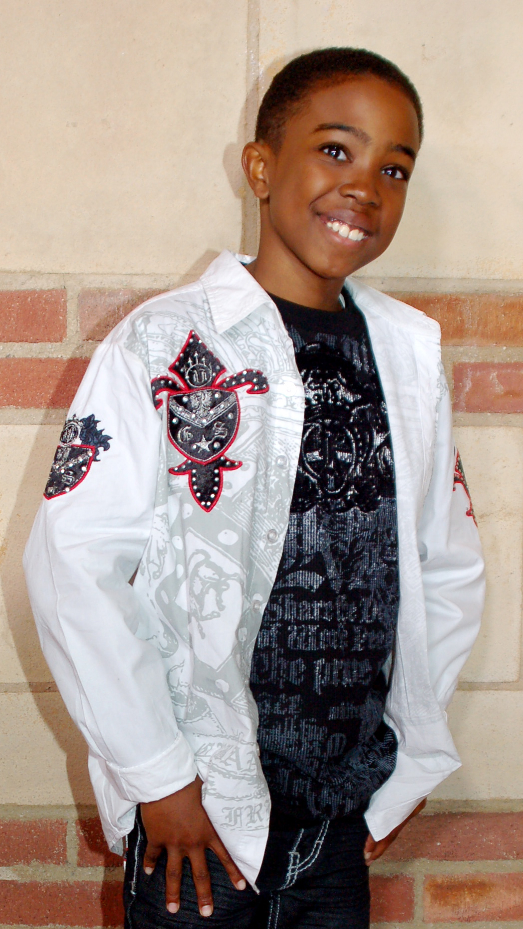 Khamani Griffin at a performance of The Hot Chocolate Nutcracker in December 2010.